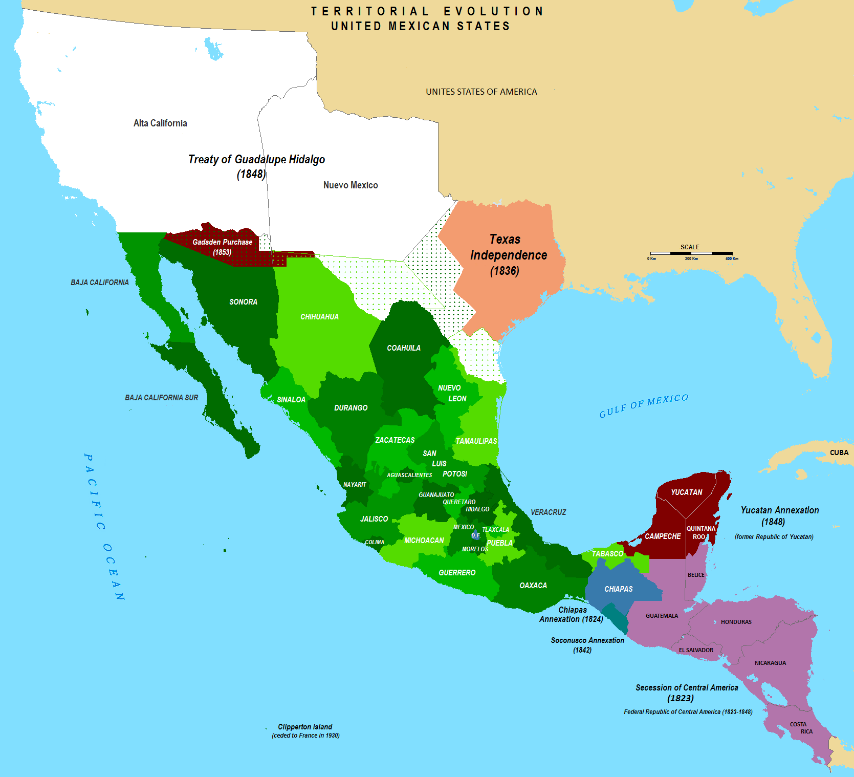 Territorial Evolution of Mexico since 1821 to 2009